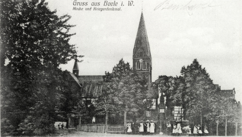 Probably the first postcard of Boele, today a borough of the city of Hagen in North Rhine-Westphalia, Germany.